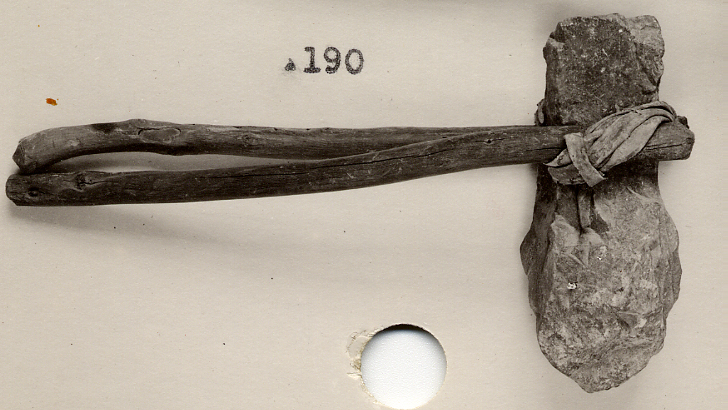 Maul perhaps from destruction of tomb